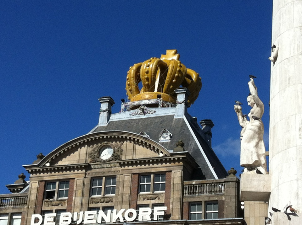 A crown-like balloon on top of Bijenkorf on Koningsdag, 2013.